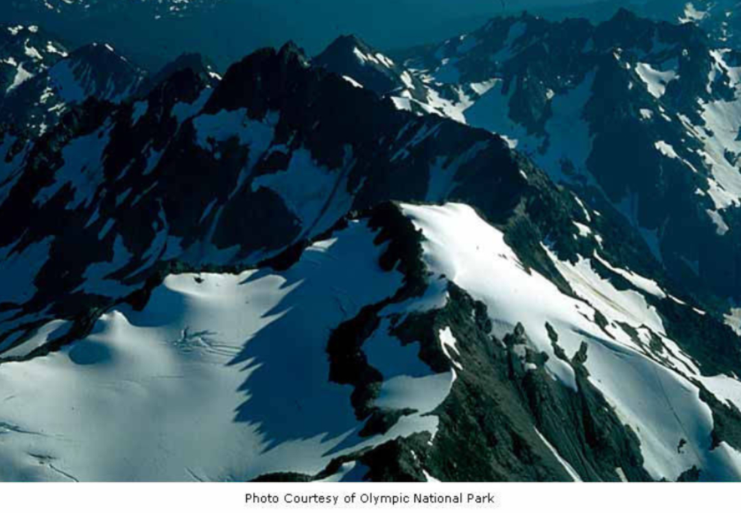 Aerial view of the summit of Mount Queets and Queets Glacier. Olympic National Park, Washington state